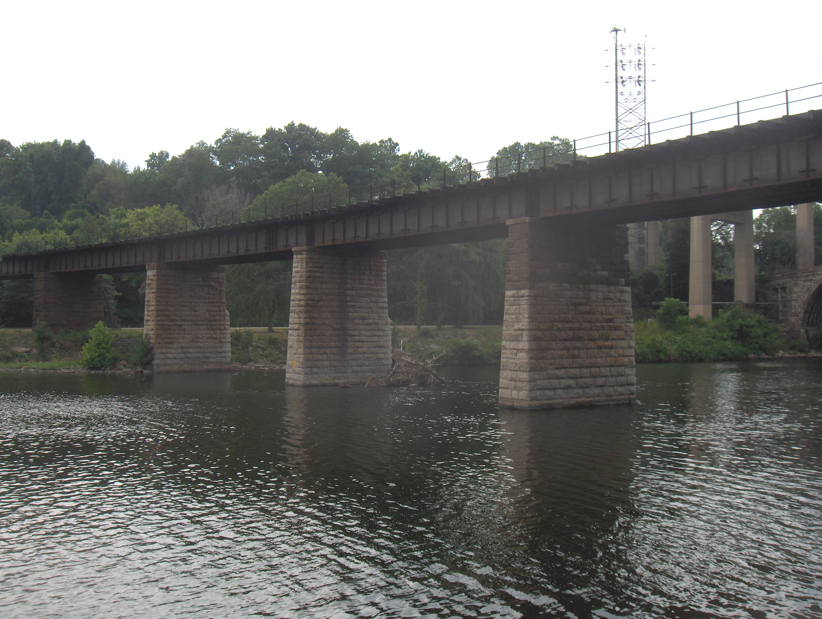 Philadelphia & Reading Railroad, Bridge at West Falls, built 1890, is a stone and iron plate bridge that spans the Schuylkill River at Falls of Schuylkill, in Fairmount Park in Philadelphia, Pennsylvania. Looking from Kelly Drive, upstream.